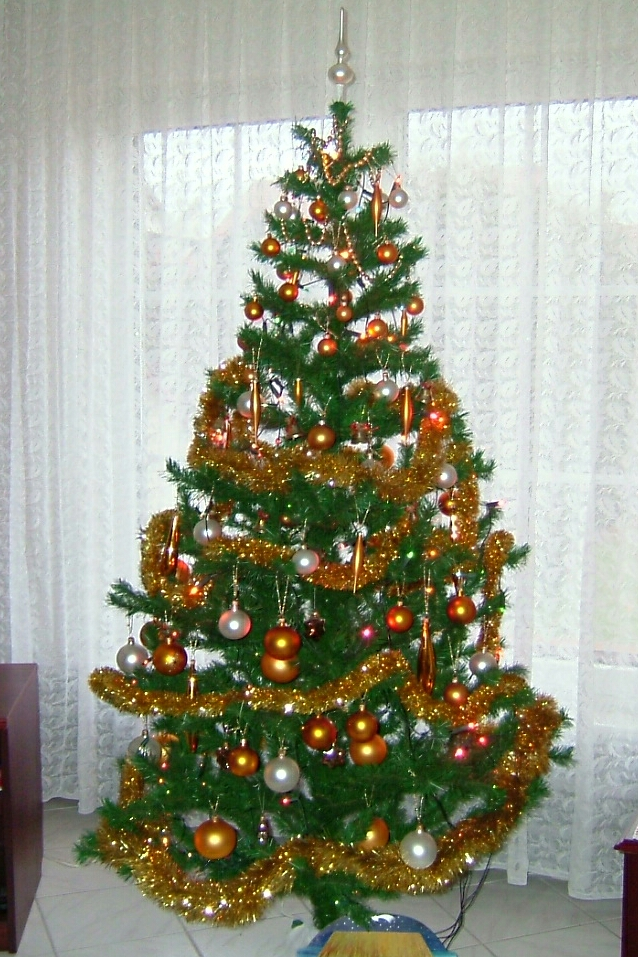 Christmas tree in Poland 2004